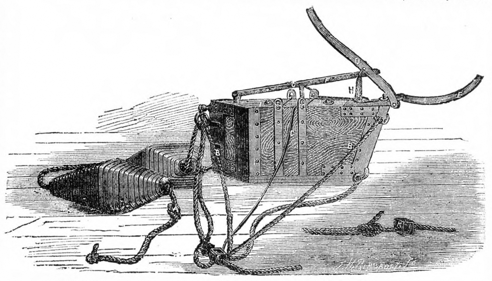 The Harvey towed torpedo was described in Scientific American June 17, 1871 - accompanied by this illustration.